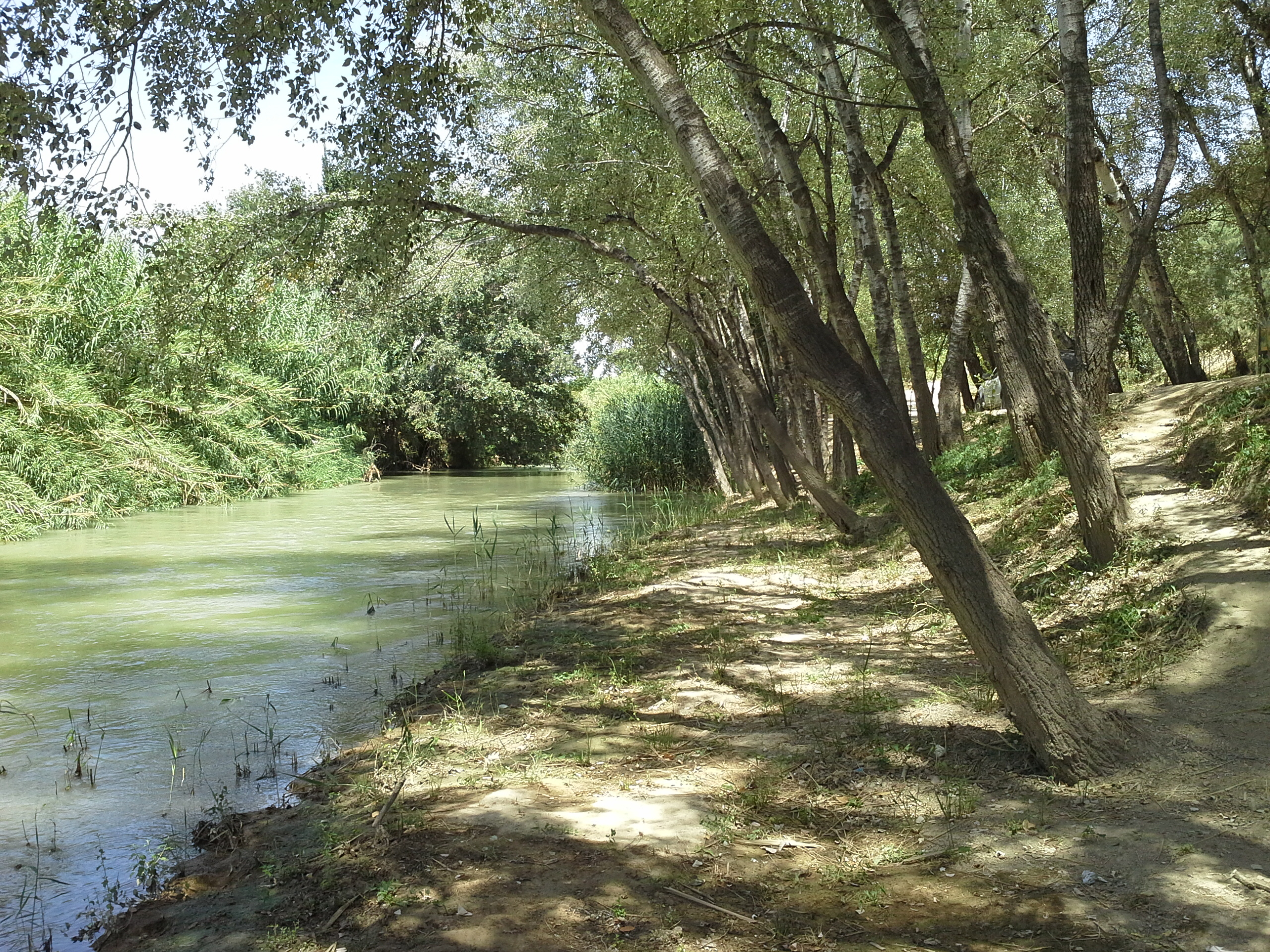 Río Segura Soto los Álamos